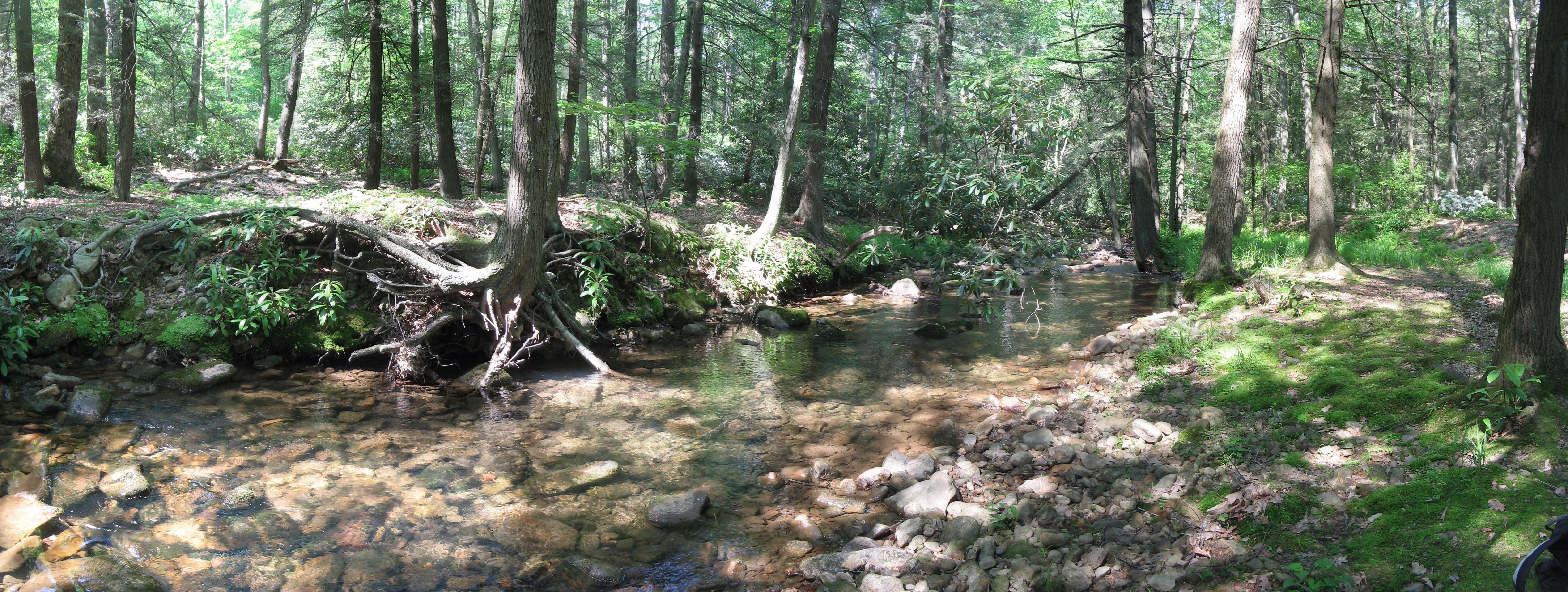 White Deer Hole Creek, near Fourth Gap, Washington Township, Lycoming County, Pennsylvania, USA (Class A Wild Trout Waters, within the Tiadaghton State Forest). Looking downstream, south of the bridge on Cove Road, originally several vertical images, This panoramic image was created with Autostitch. Stitched images may differ from reality.